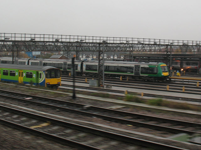 Tyseley traincare depot. Compare this scene with 319743, taken 18 years earlier. All the 'first generation' diesel multiple units have gone, to be replaced with designs such as the second generation 'Sprinter' (left) and the later 'Turbostar' (right).